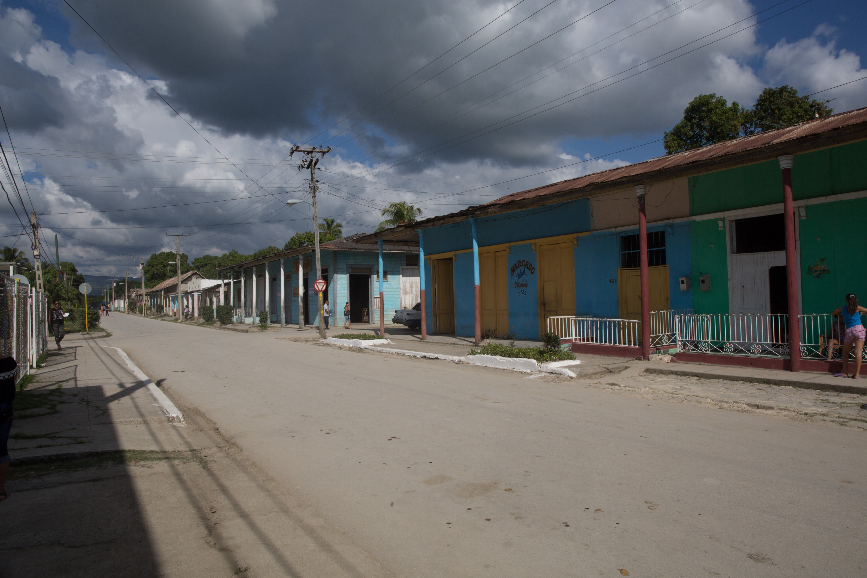 Jamaica, Guantánamo, Cuba. Centre of administration of Manuel Tames